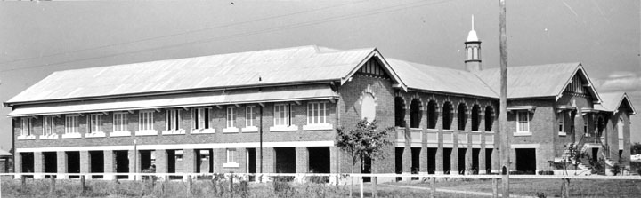 Additional wing, Ayr Intermediate School. (An alternative name is Ayr State High and Intermediate School.)